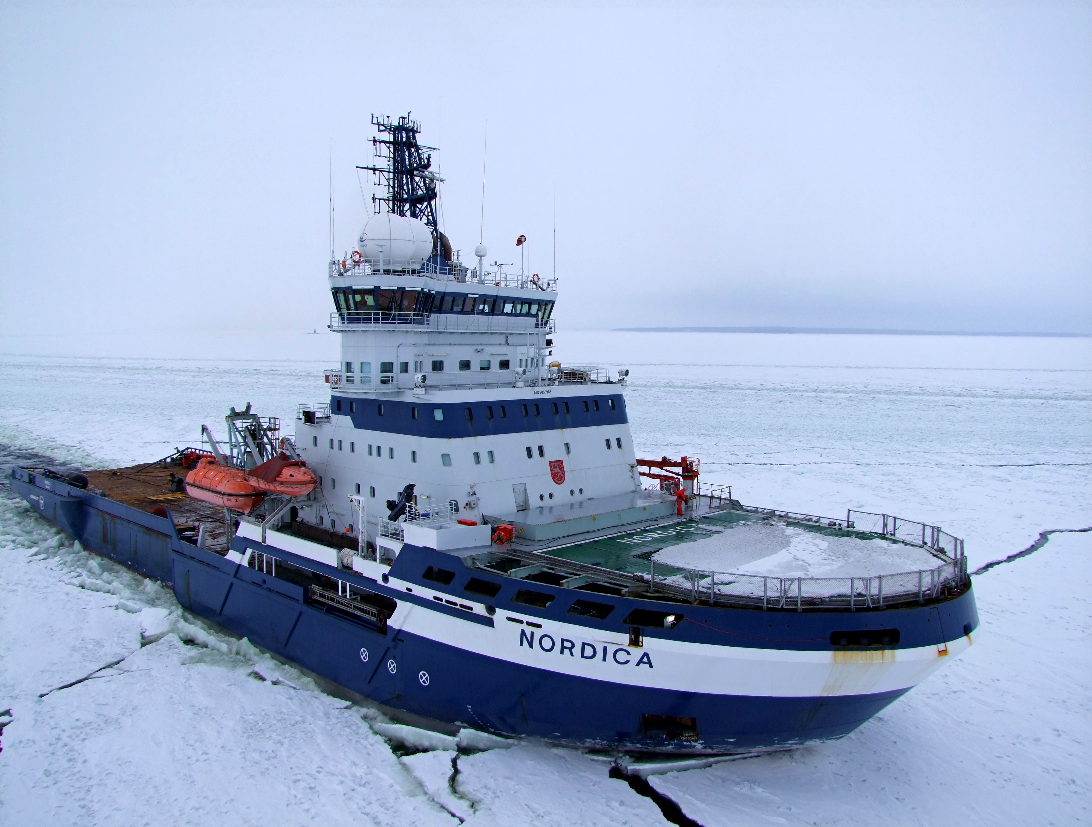 Finnish icebreaker Nordica assisting a merchant ship near Hamina, Finland, on 28 February 2009.